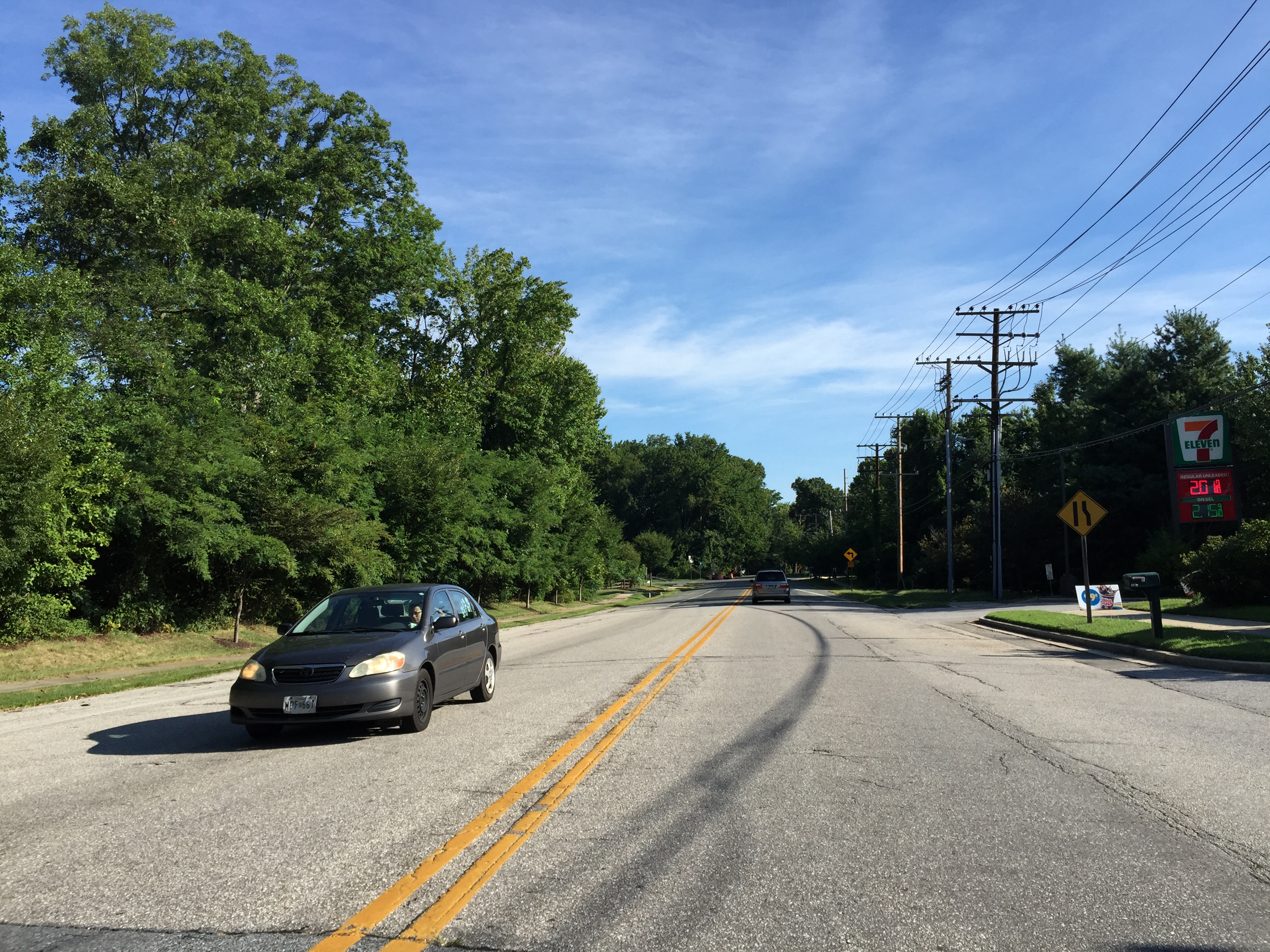 View north along Maryland State Route 931 (College Parkway) just south of Peregoy Park Place in Saint Margarets, Anne Arundel County, Maryland